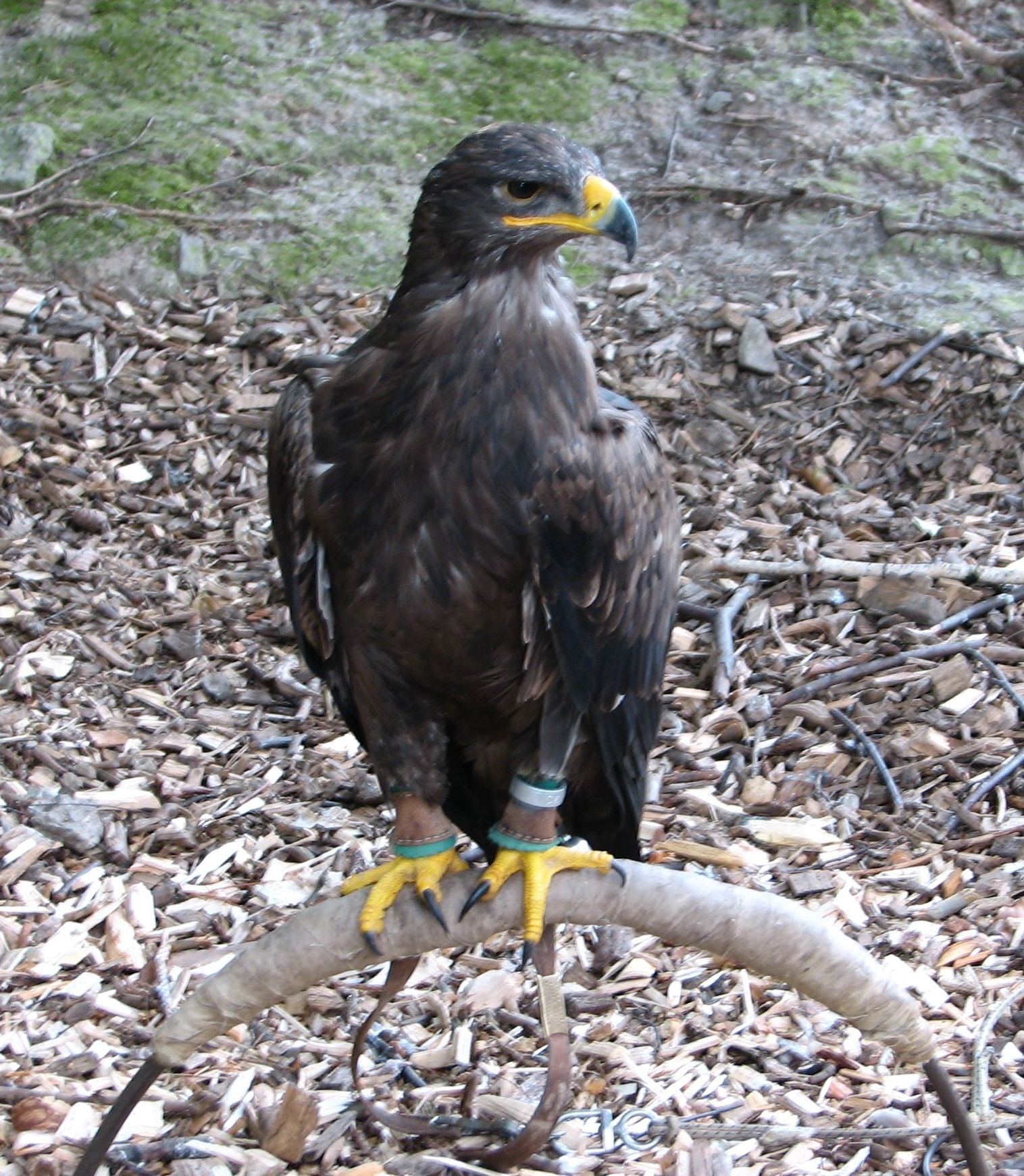 Steppe Eagle (Aquila nipalensis) in ZOO Olomouc, Czech Republic